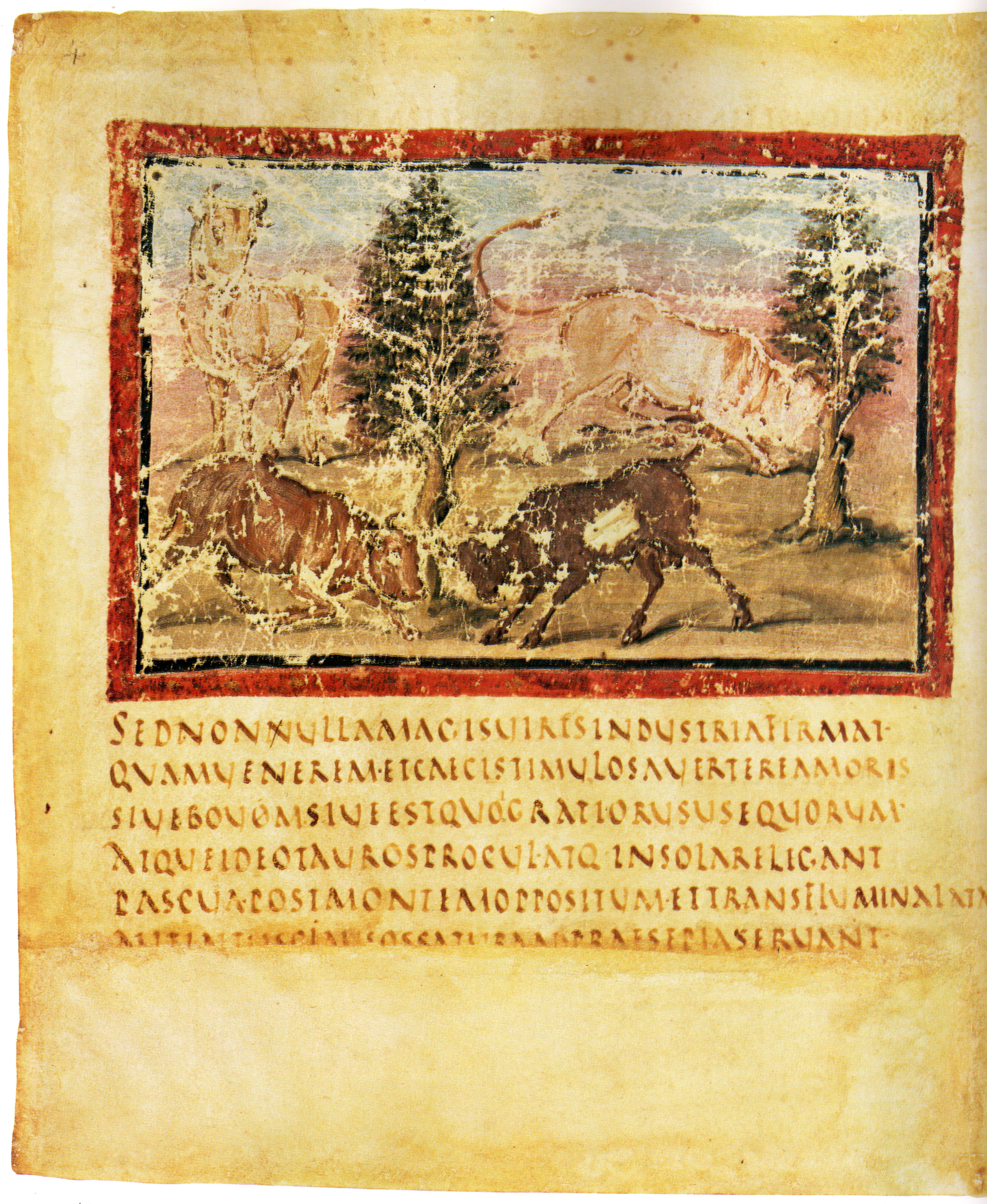 Folio 4v of the Vatican Vergil. Bulls fighting. Illustration of text from the Georgics